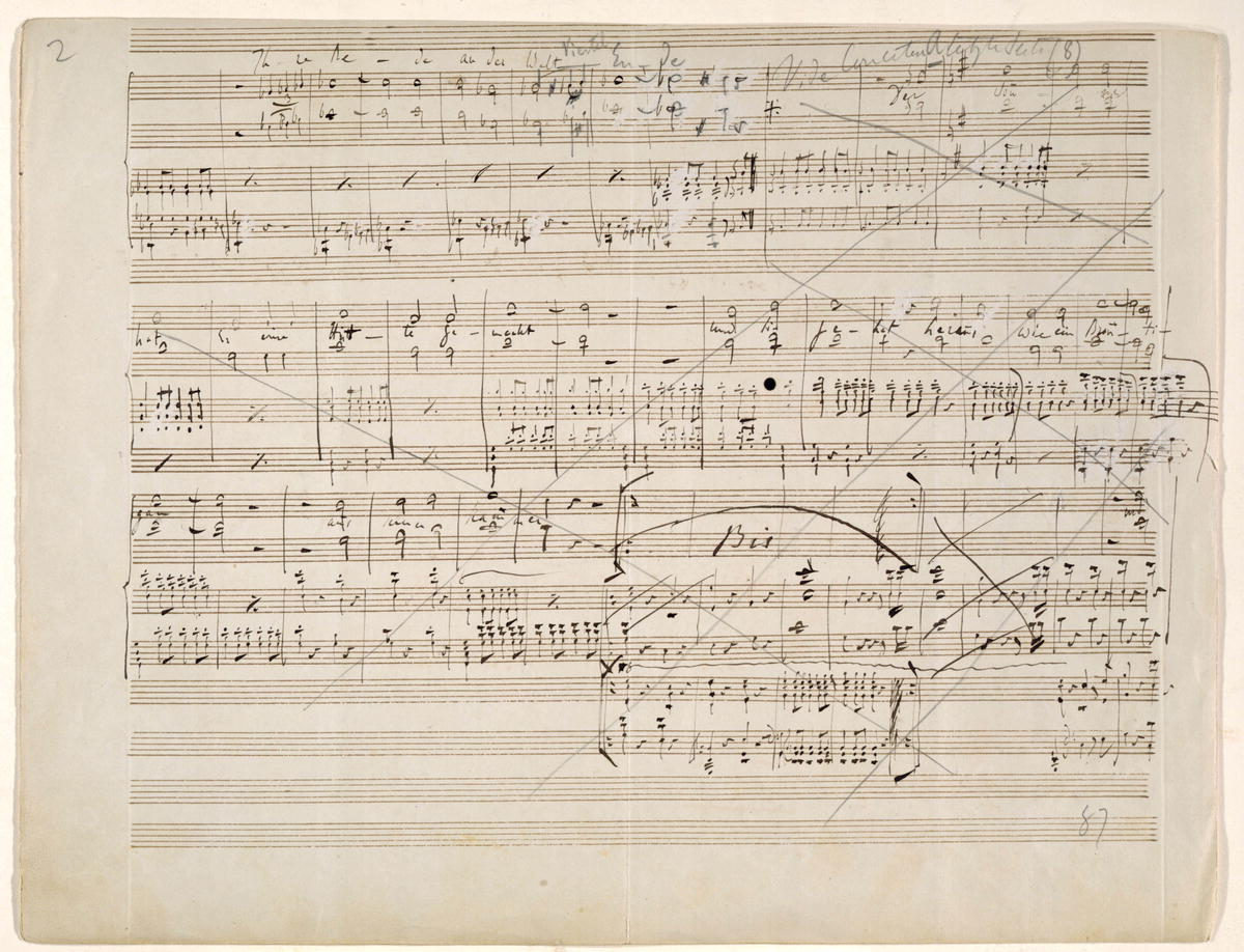 "Psalm XVIII", Die Himmel erzählen die Ehre Gottes (heaven explains God's reputation), for Tenor, Bass, and Accompaniment. Manuscript copy in Liszt's handwriting; draft in condensed score. Page 2 of 4.